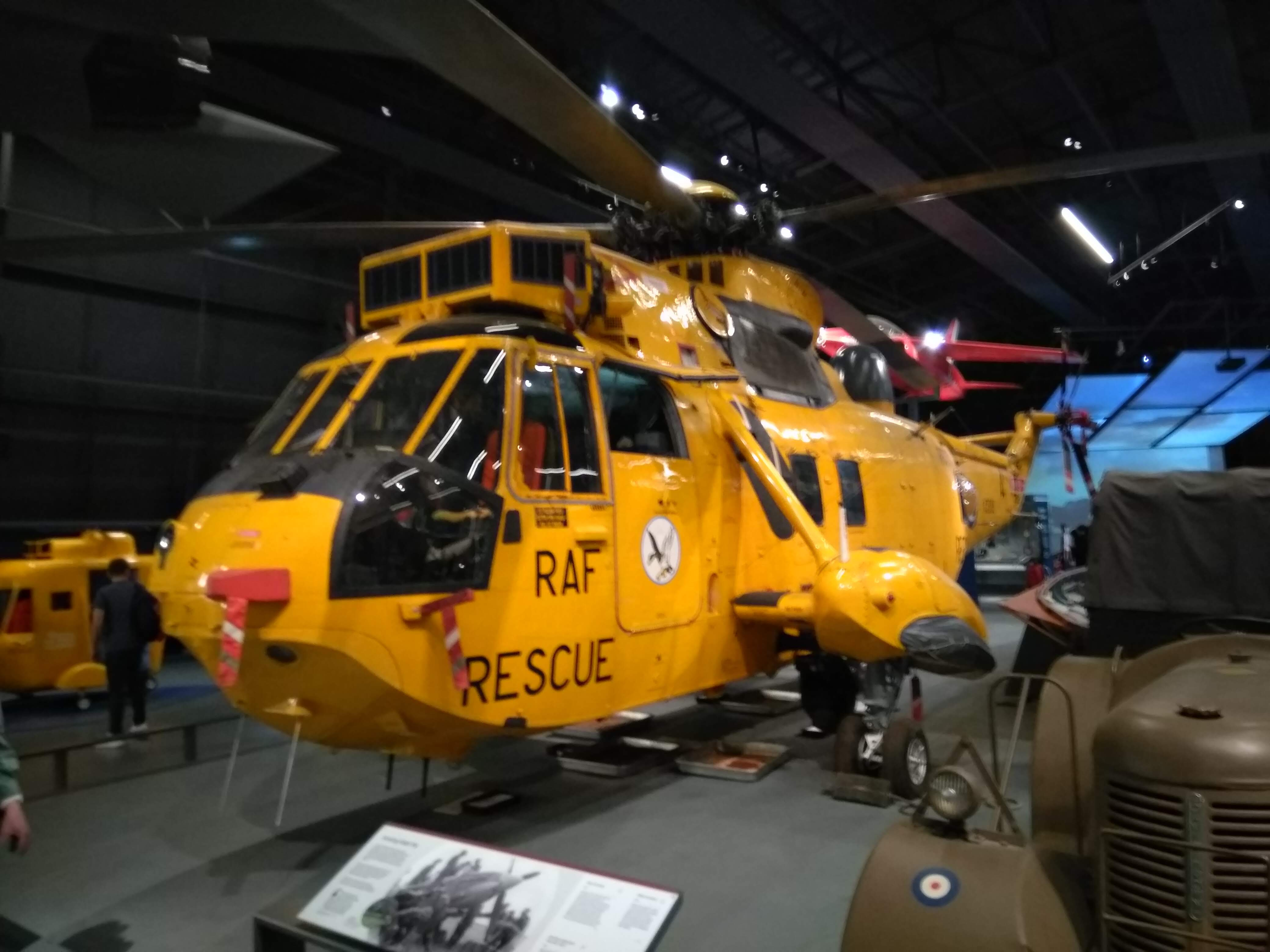 A Sea King HAR3 helicopter at the RAF Museum in London